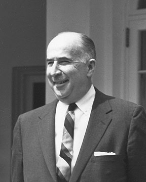 Attorney General John N. Mitchell